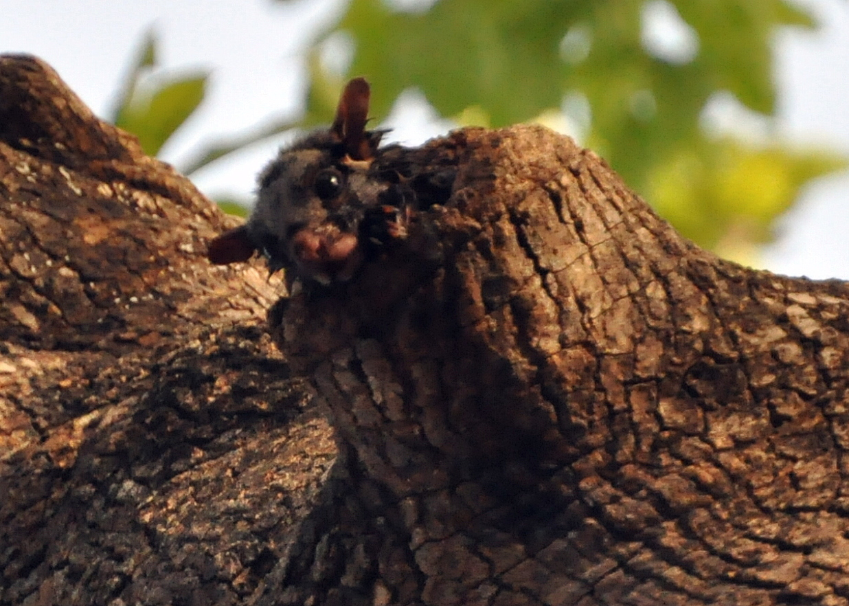 Flying squirrel